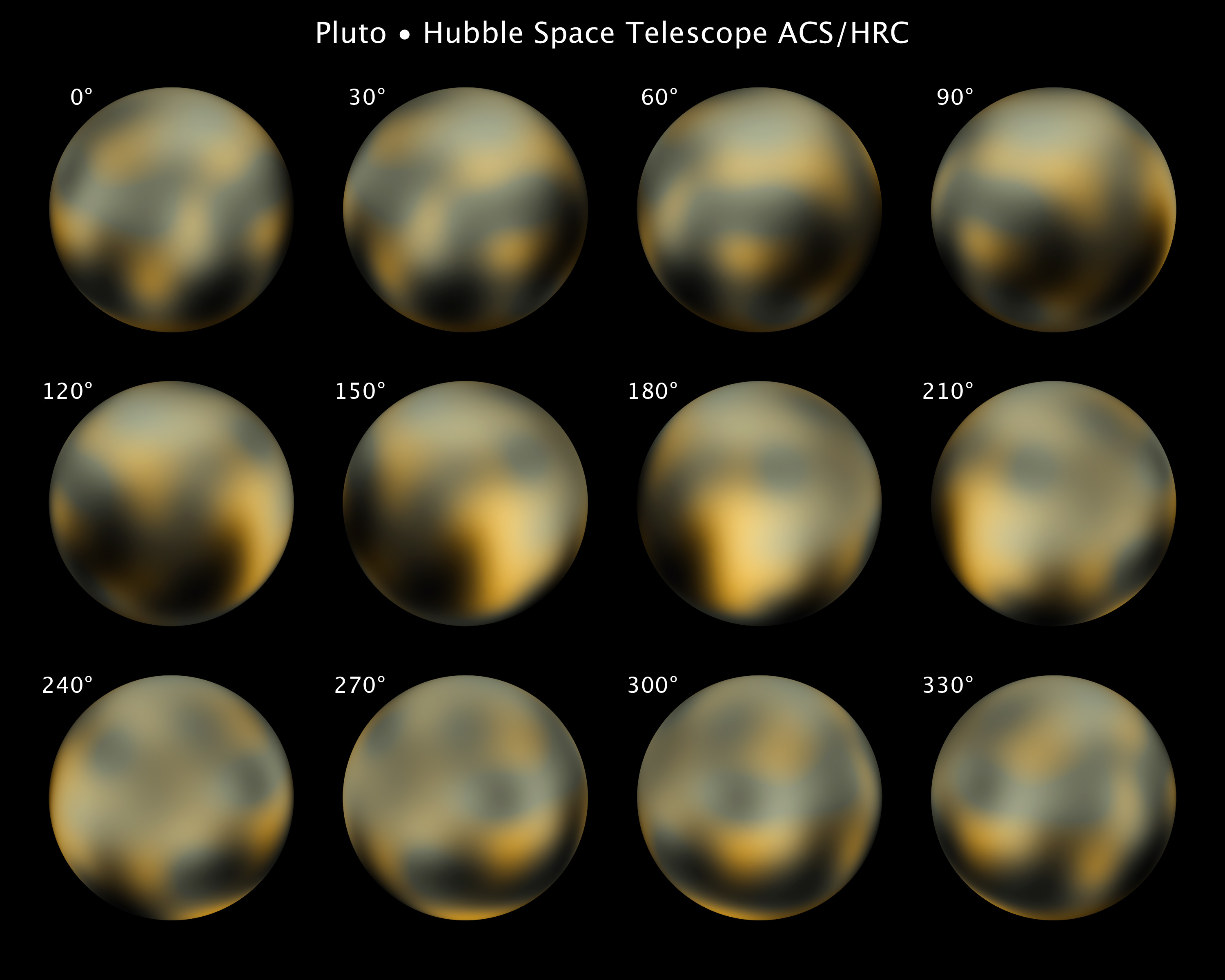 A photomap of Dithering image based on pictures of Pluto from 2002 to 2003 taken by the Advance Camera for Survey of the Hubble telescope.